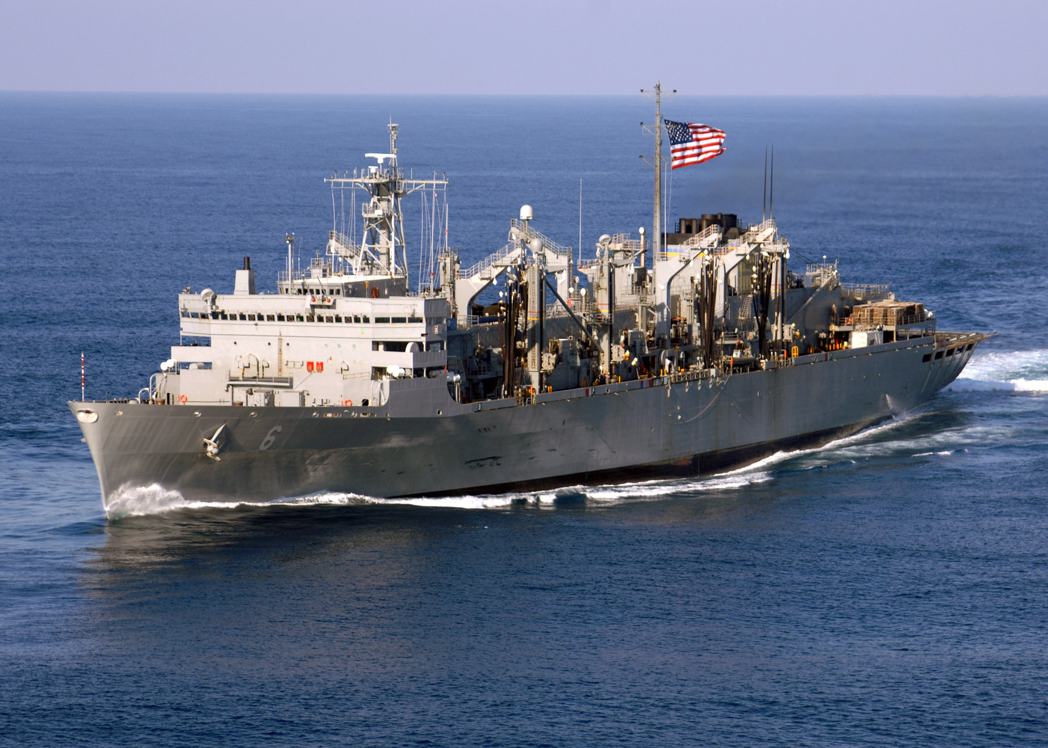 Atlantic Ocean (May 7, 2006) - The Military Sealift Command (MSC) fast combat support ship USNS Supply (T-AOE 6) sails through the Atlantic Ocean in formation with the Enterprise Carrier Strike group (CSG). The Enterprise CSG and embarked Carrier Air Wing One (CVW-1) are currently underway on a scheduled six-month deployment in support of the global war on terrorism. U.S. Navy photo by Photographer's Mate 3rd Class Joshua Kinter (RELEASED)